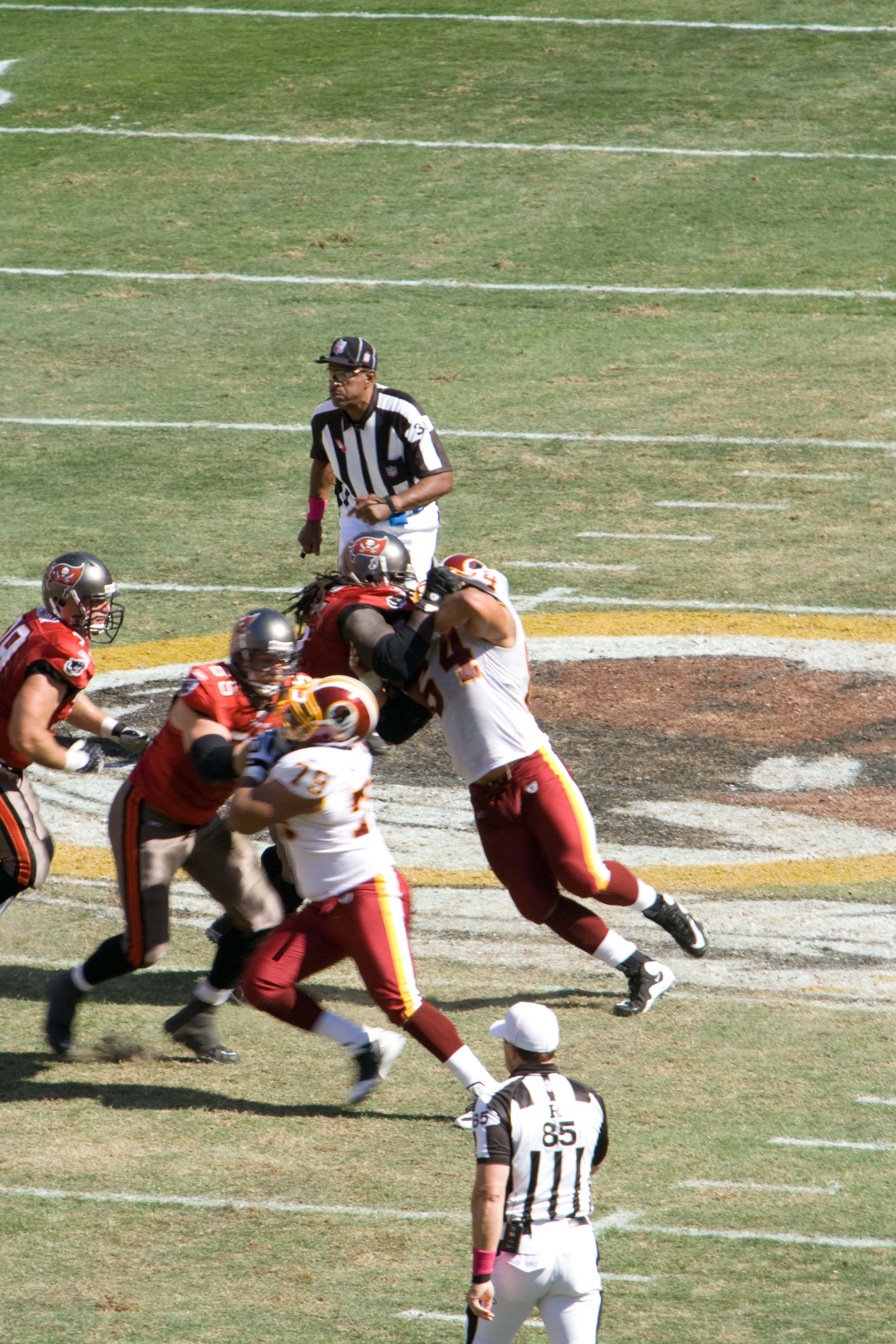 Tampa Bay Buccaneers tight end Jerramy Stevens blocks Washington Redskins defensive end Lorenzo Alexander, while Tampa center Sean Mahan runs by, in the October 4, 2009 game between the two teams at FedExField of Landover, Maryland.